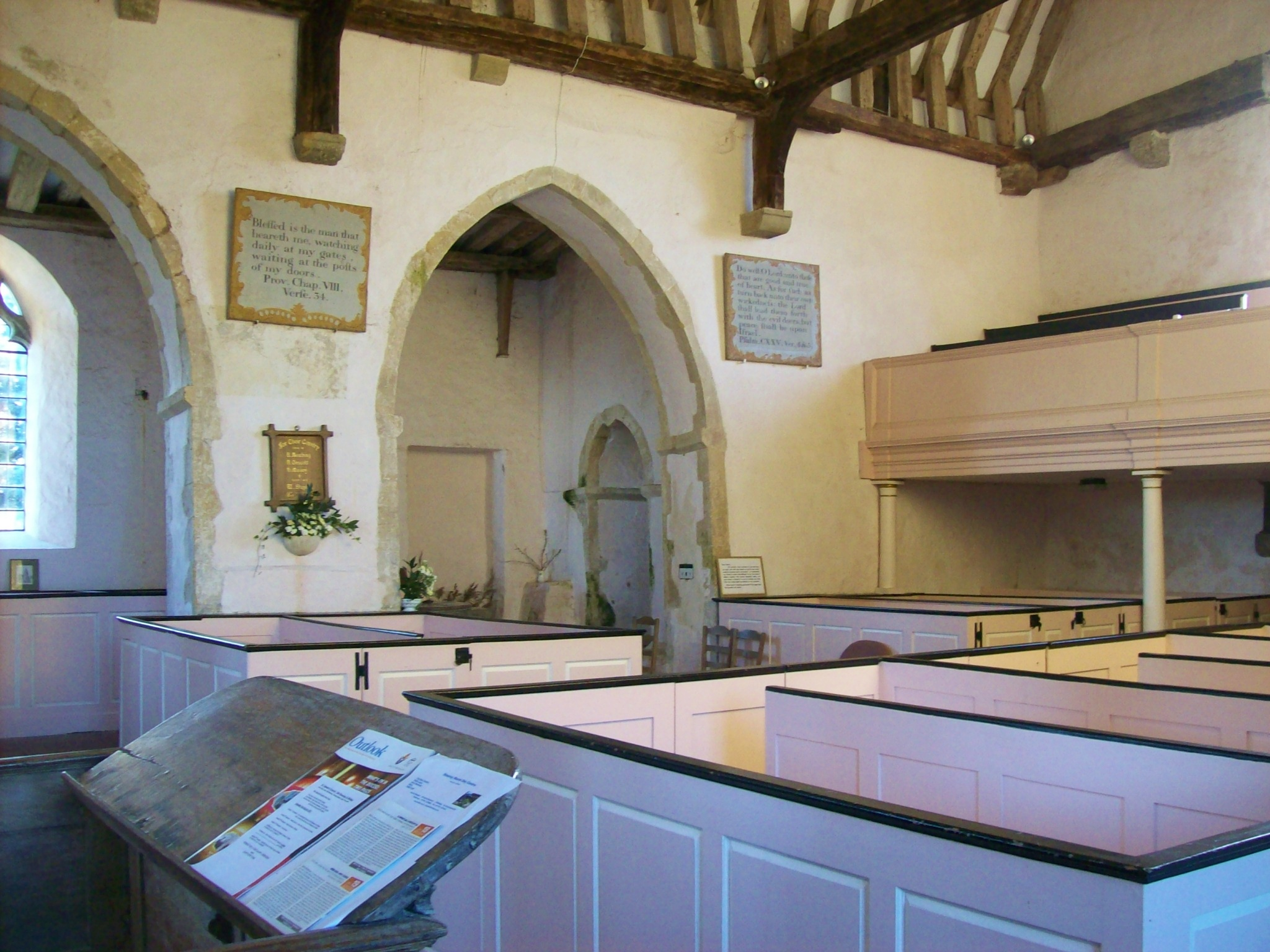 St Clement, Old Romney, the nave looking south west